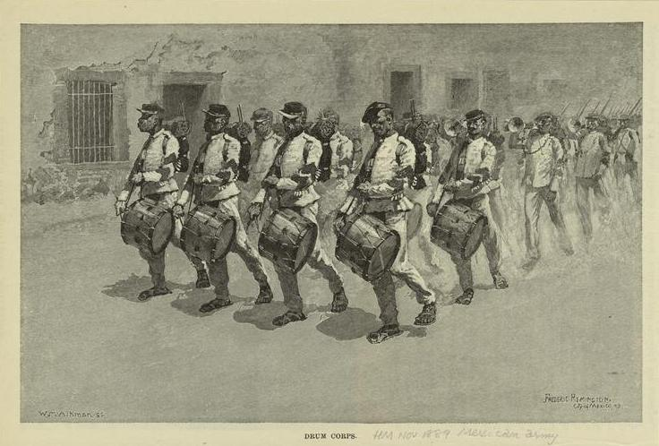 Mexican Army Drum Corps.